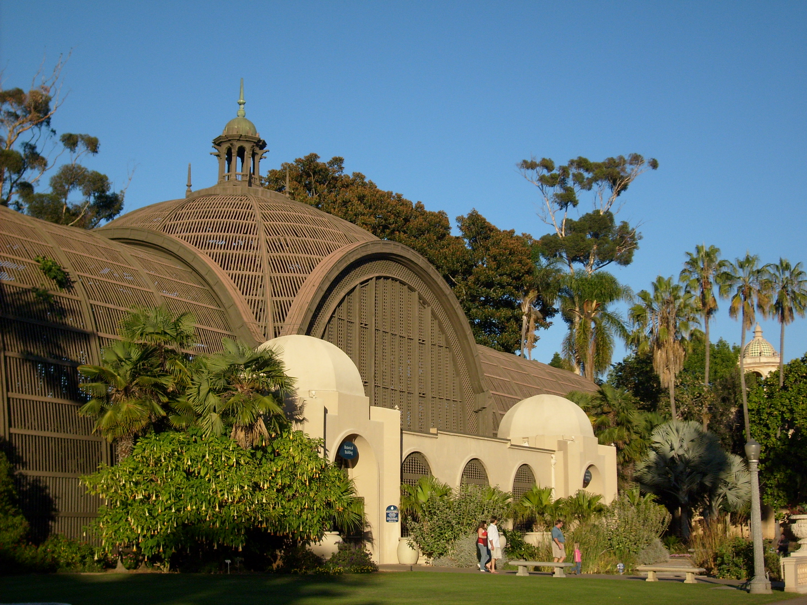 Botanical Gardens building, Balboa Park, San Diego.